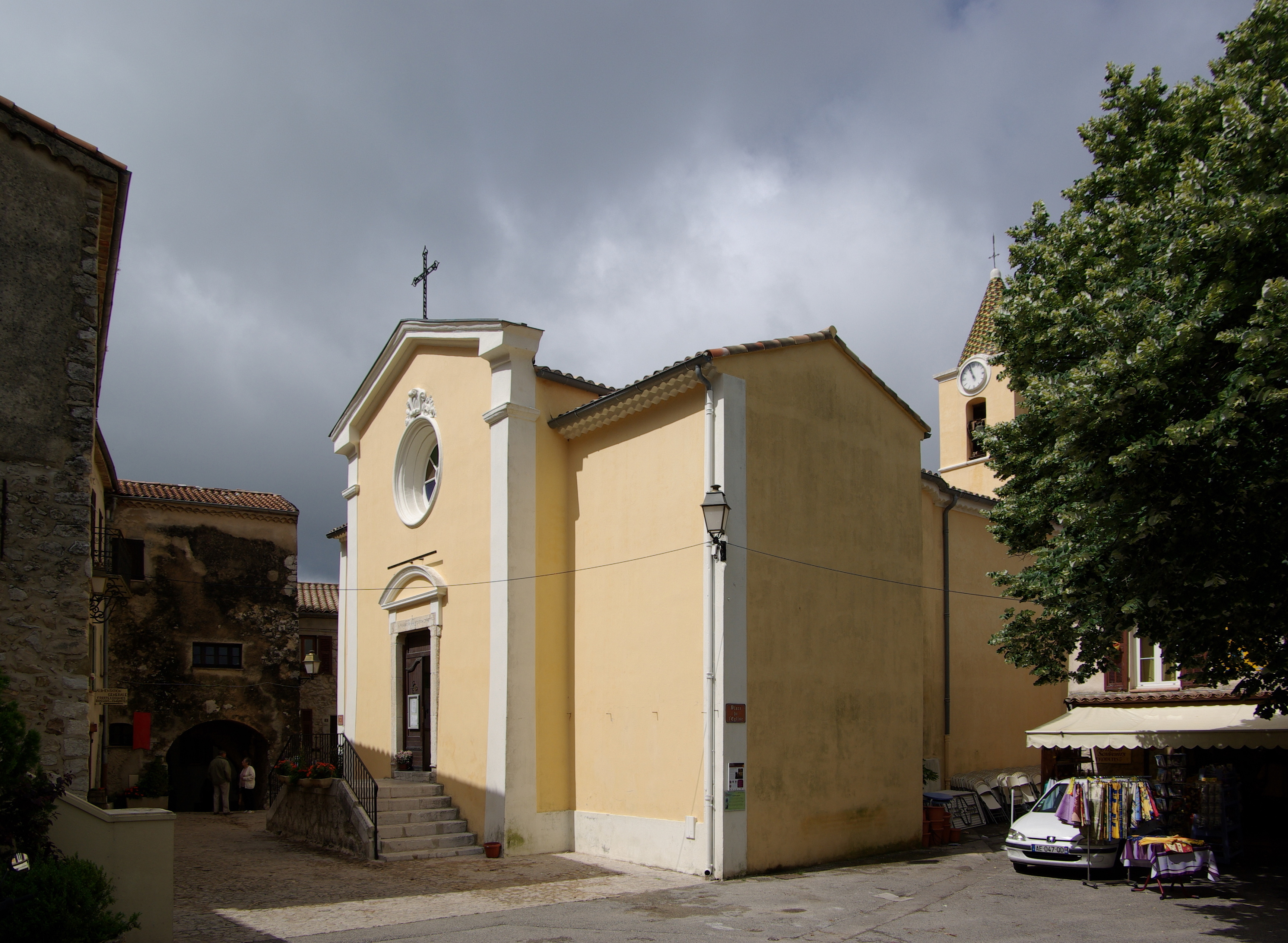 France, Sainte-Agnès, Alpes-Maritimes, Notre-Dame des Neiges